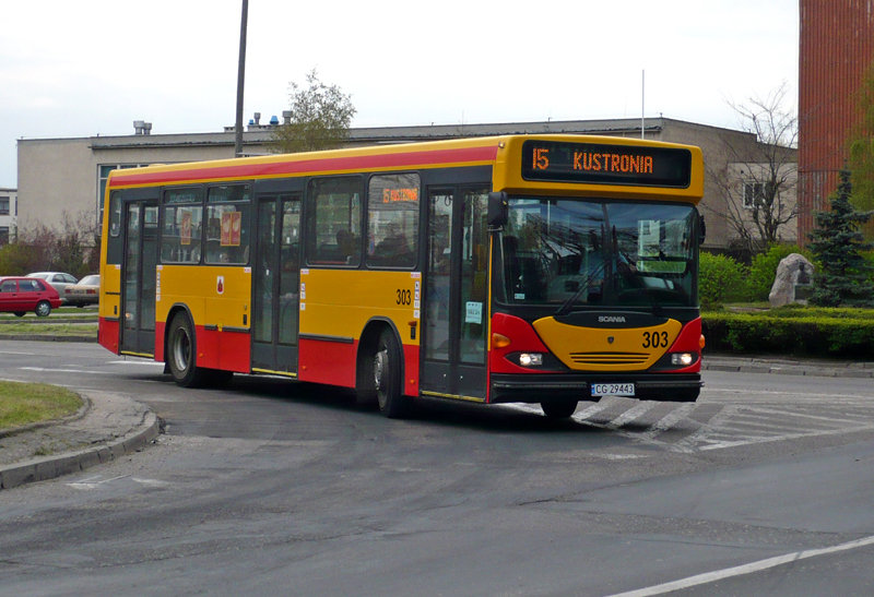 Grudziądz, Bora-Komorowskiego street. Hess City bus (#303) with Scania L94UB chassis. Built 2001, MZK Grudziądz operator.